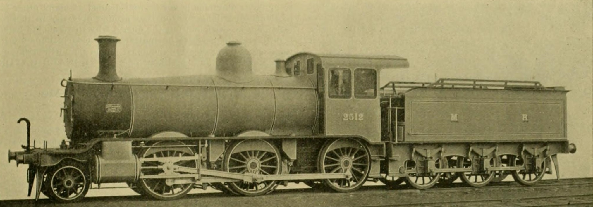 Title: American engineer and railroad journal Year: 1893 (1890s) Authors: Subjects: Railroad engineering Engineering Railroads Railroad cars Publisher: New York : M.N. Forney Text Appearing Before Image: re box. length ■ 72 in. Fire box, width .31% in. Fire box. depth 74^^ in. Fire box. material copper Fire box plates, thickness sides. Yz in.: back, V2 in.: crown. ^ in.: tube sheet, ^A and % in. Fire box, water space ...7 4 in. front, 3 in. sides., 3 in. back Fire box, crown staying crown bars 5 in. x % in. welded at ends Fire box, stay bolts copper, 1 in. dia. 11 thds Tubes, material copper Tubes, number of 244 Tubes, diam 1% in. Tubes, length over tube sheets 5 ft. 0 in. Fire brick, supported on studs Heating surface, tubes 112S.S7 sq. ft. Heating surface, fire box 126.46 sq. ft. Heating surface, total 1255.33 sq. ft. Grate surface 15.87 sq. ft. Exhaust pipes single high Exhaust nozzles 4,4 in.. 4t4 in., 4% in. diam. Smoke stack, inside diameter 16 in. at top, 14 in. near bottom Smoke stack, top above rail 12 ft. W2 in. Boiler supplied by 2 injectors. Gresham & Cravens Tender. Weight, empty 43.800 lbs. Wheels, number of 6 JULY. i«99. AMERICAN ENGINEER AND RAILROAD JOURNAL 227 Text Appearing After Image: Mogul Freight Locomotive—Midland Railway, England.Built by Schenectady Loconnotive Works.